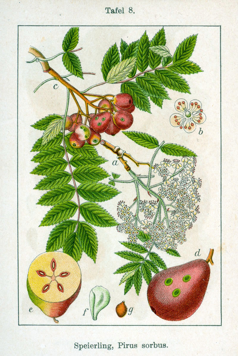 FloraWeb.de: Speierling, Sorbus domestica L. : Speierling, Sorbus domestica L., syn. Pyrus sorbus Borkh. : Cormus domestica (L.) Spach, syn. Sorbus domestica L. Original Description Speierling, Pirus sorbus